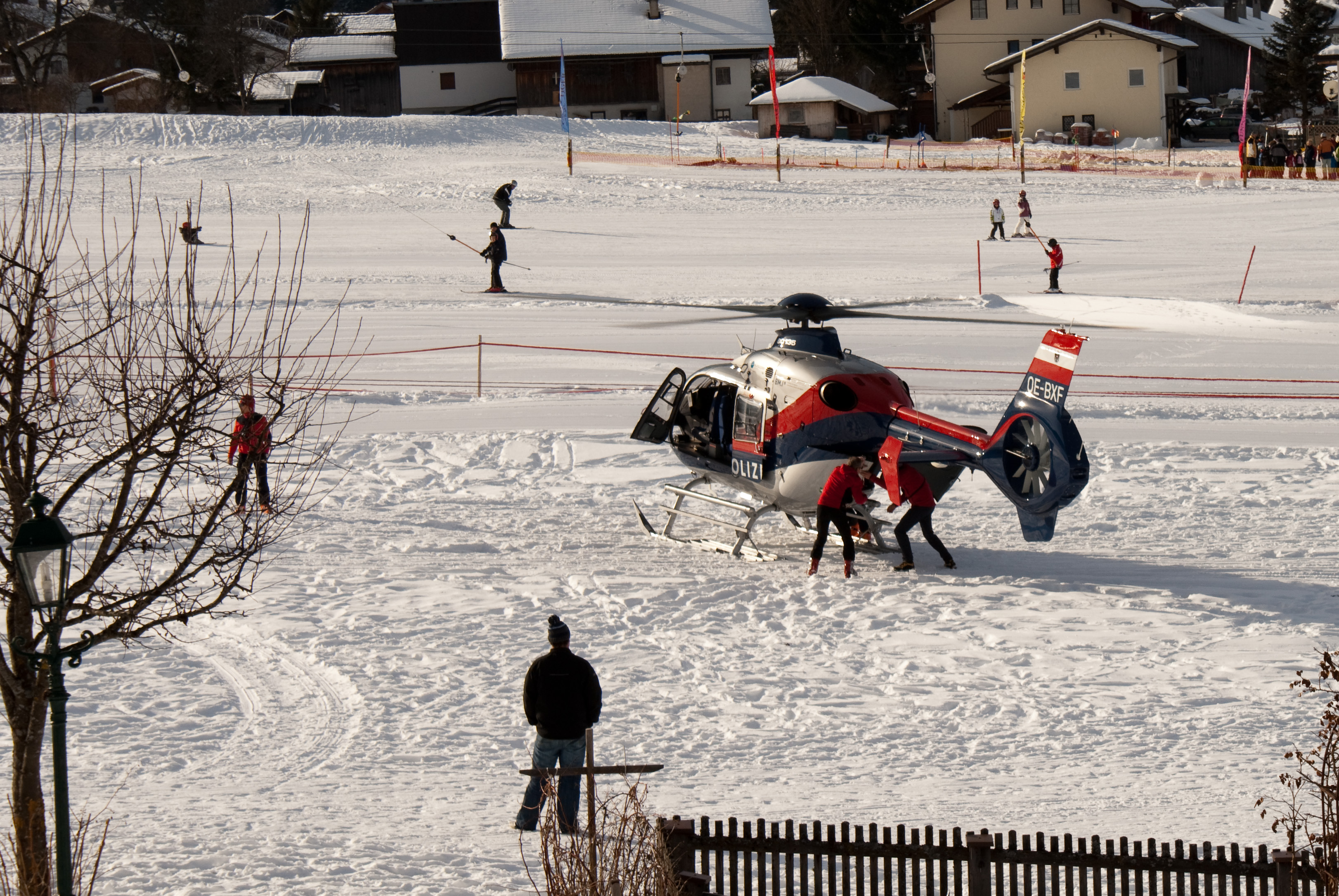 Some of the mountain rescue team load their equipment into the helicopter after a local man dies in an avalanche. The victim was a very experienced skier by all accounts, and known by the rescuers. Very sad.